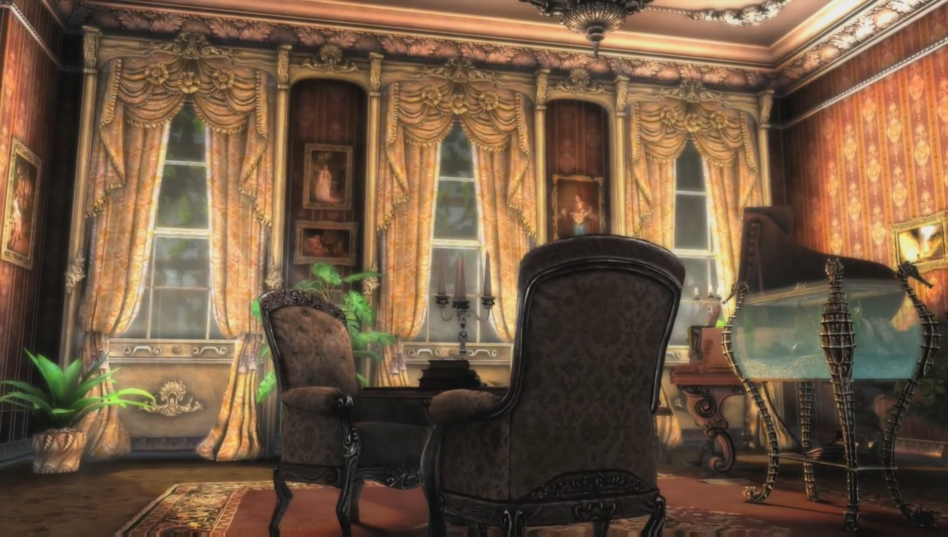 Screenshot from The Testament of Sherlock Holmes, a video game by Frogwares.